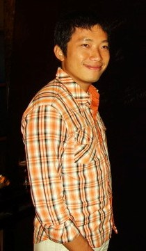 My picture